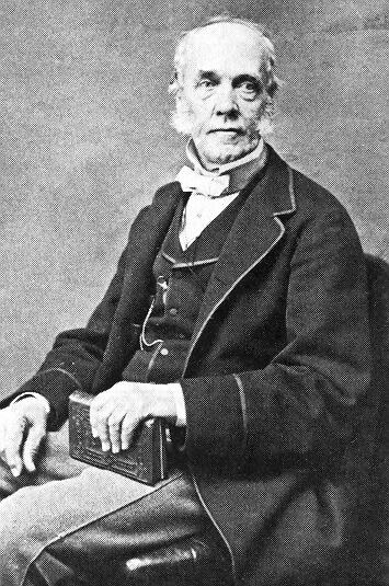 British astronomer William Lassell (1799–1880)